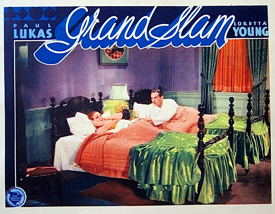 Lobby card from the 1933 film Grand Slam with Loretta Young and Paul Lukas.